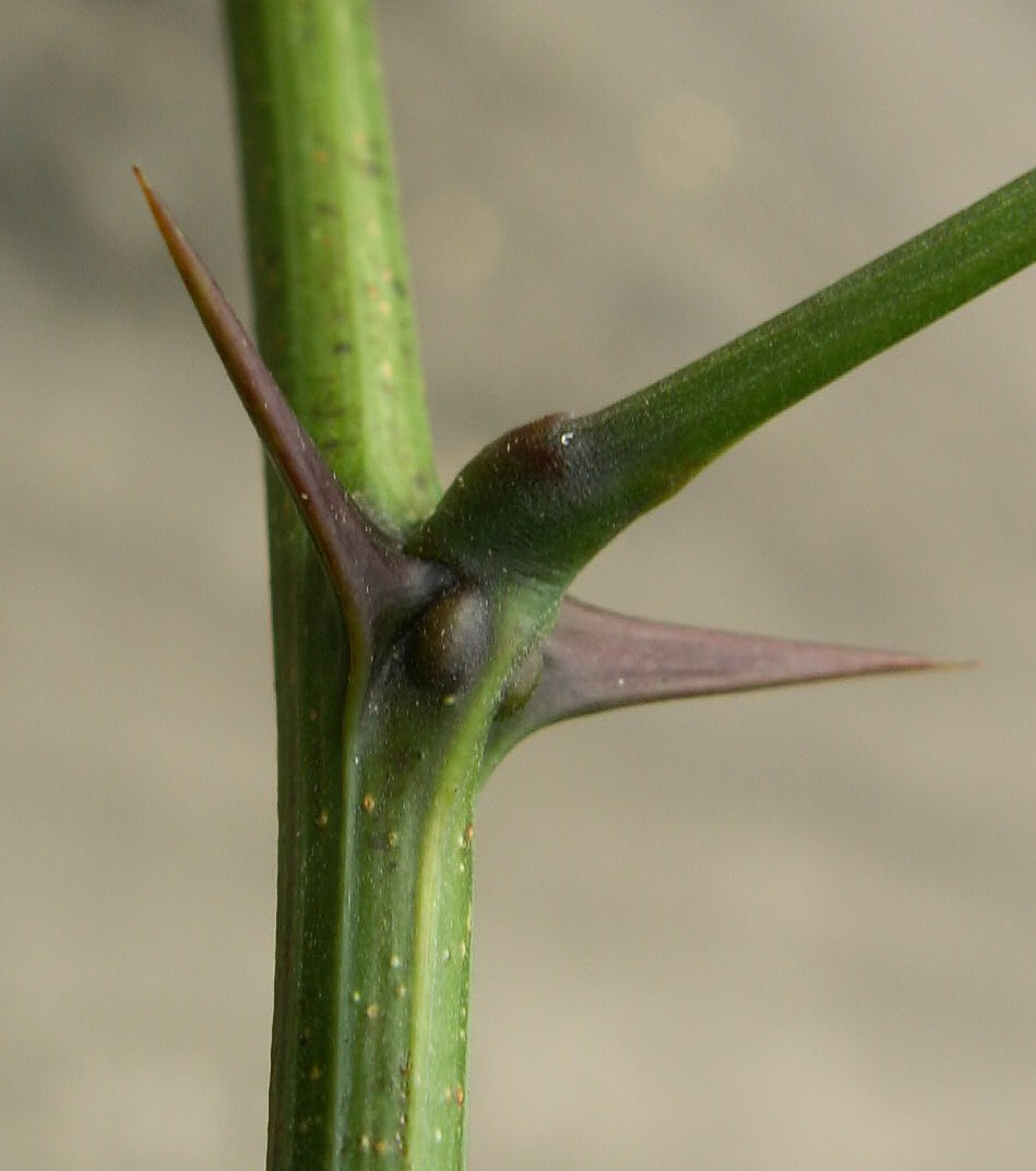 Spines - a modified stipule of Robinia pseudoacacia